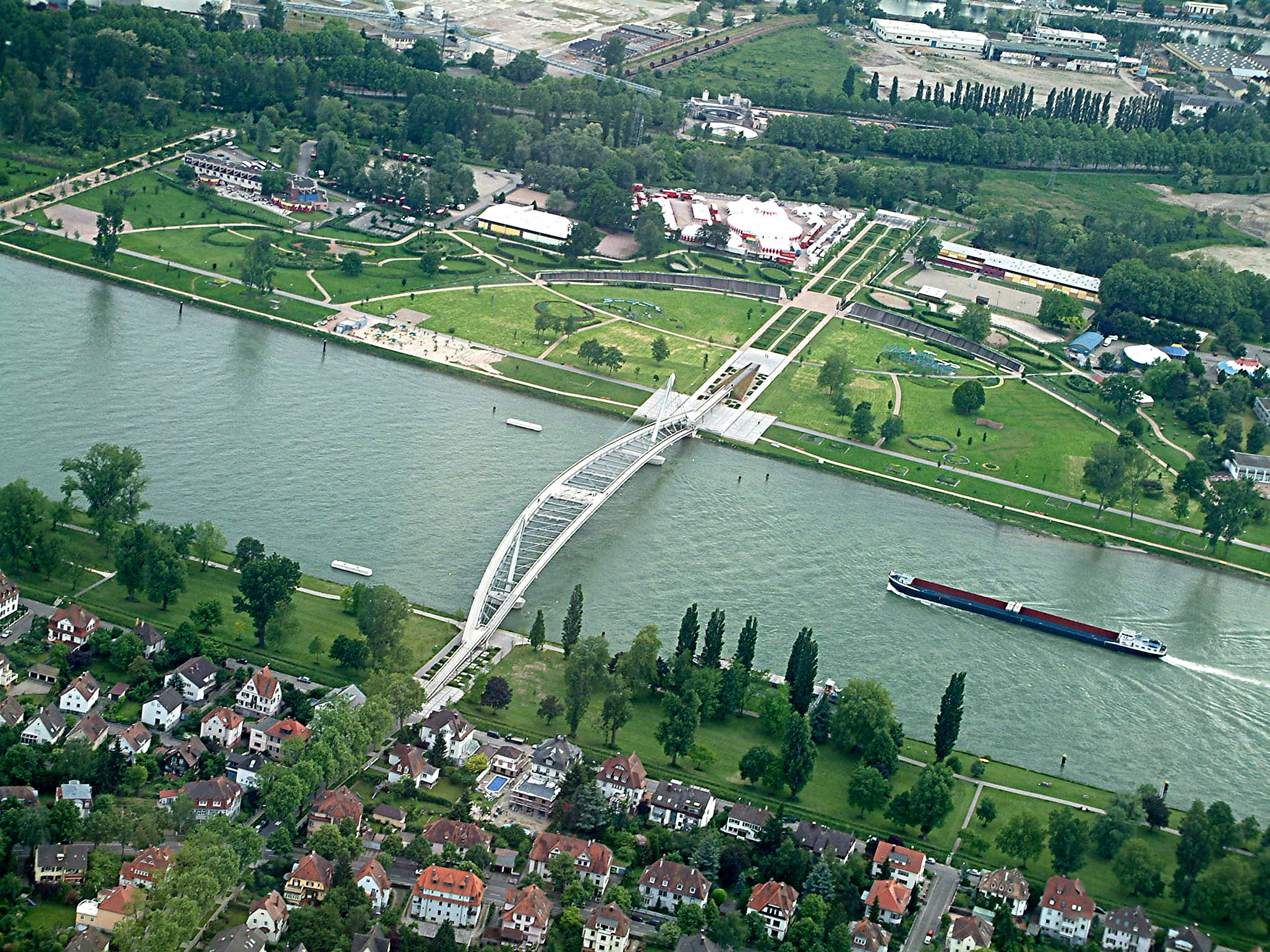 Aerial view of Passerelle des Deux Rives